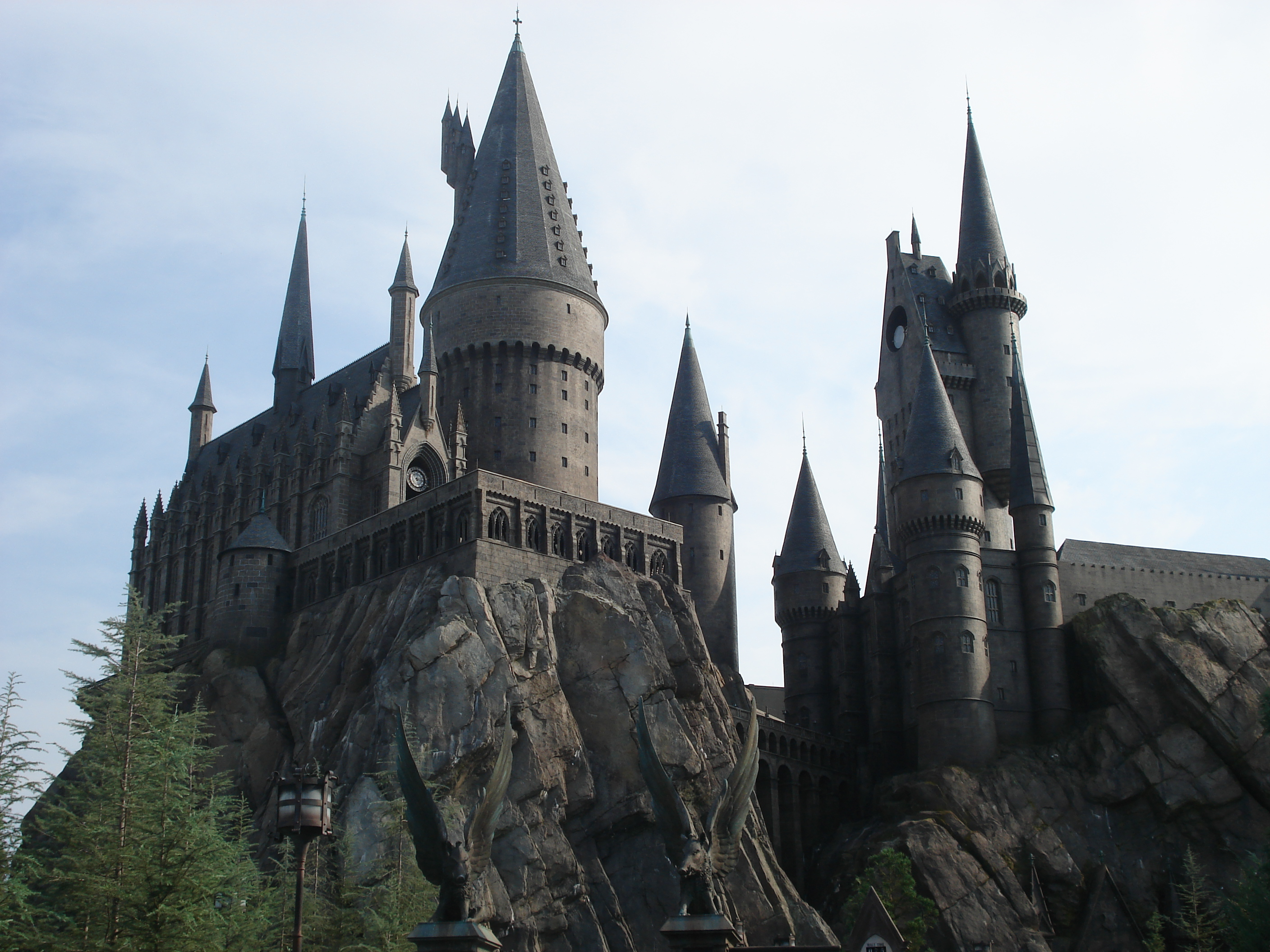 Hogwarts's replica in Universal Studio, Orlando